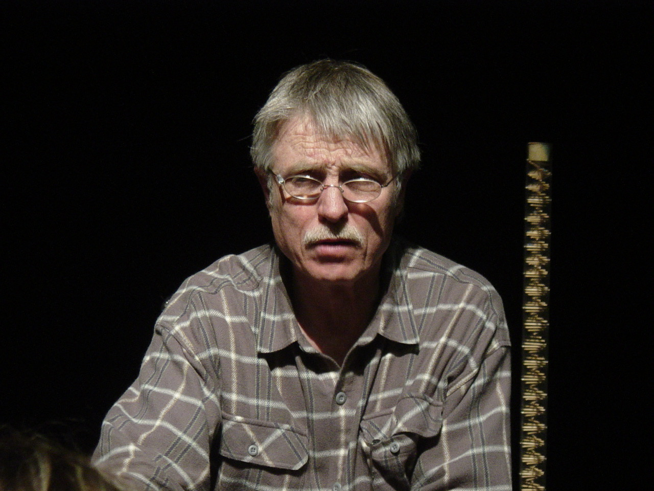 Picture of musician Steve Waring. Taken on 18 January 2004 during a concert in Brittany (France).